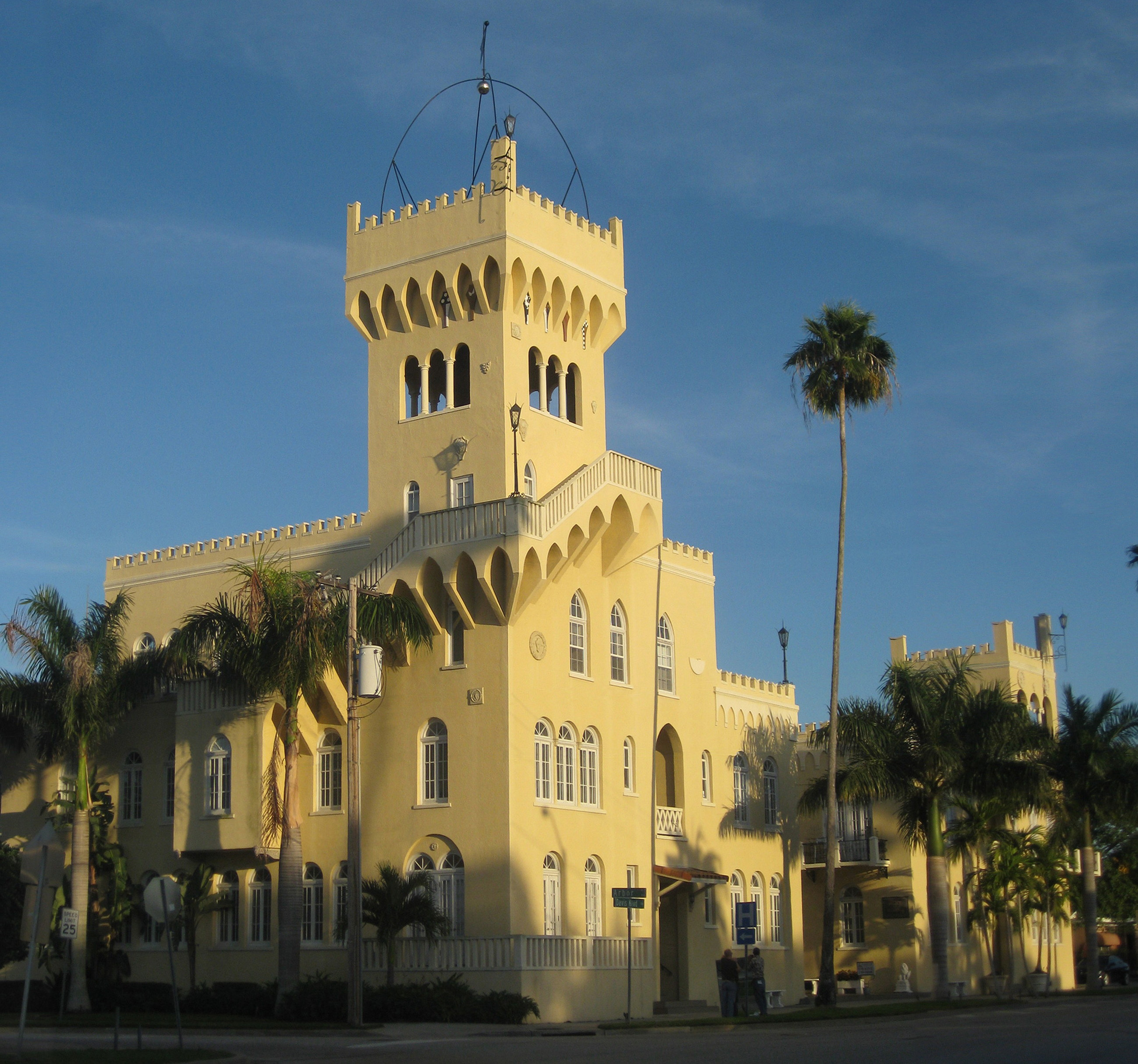 A 28-unit, 1925 Mediterranean Revival apartment building on Davis Islands in Tampa, Florida, USA. Inspired by the Palazzo Vecchio in Florence, Italy, the Palace of Florence Apartments are listed on the U.S. National Register of Historic Places.